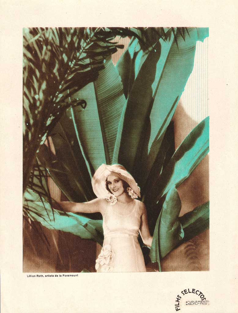 Publicity photo of Lillian Roth for Argentinean Magazine. (Printed in USA)